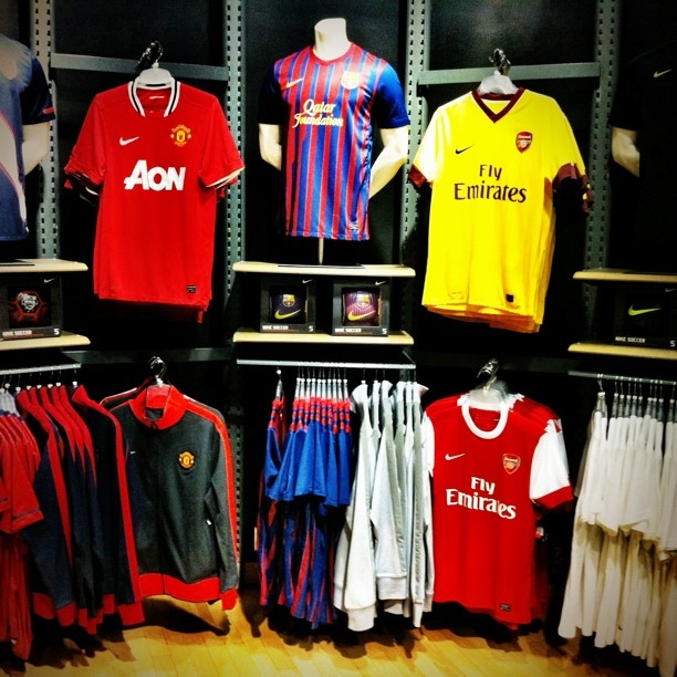 Some association football shirts.